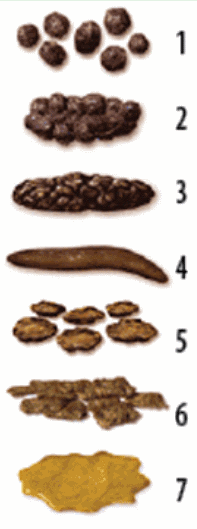 Bristol stool scale Type 1: Separate hard lumps, like nuts (hard to pass) Type 2: Sausage-shaped, but lumpy Type 3: Like a sausage but with cracks on its surface Type 4: Like a sausage or snake, smooth and soft Type 5: Soft blobs with clear cut edges (passed easily) Type 6: Fluffy pieces with ragged edges, a mushy stool Type 7: Watery, no solid pieces, entirely liquid